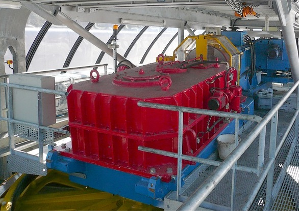 motor of chairlift "les Jasseries", Chalmazel ski resort (France)